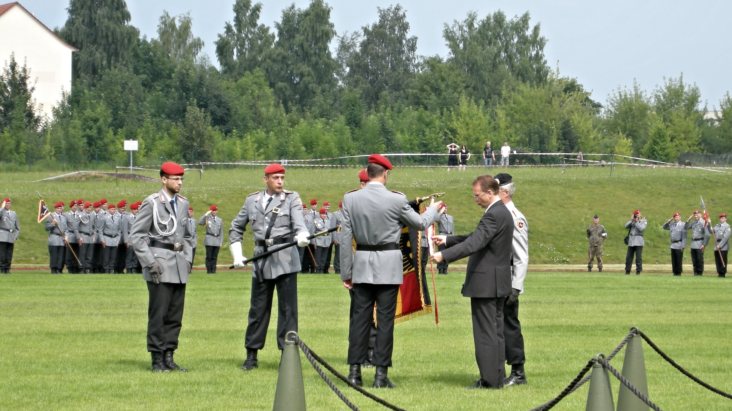 Open door day at the Görmar barracks in Mühlhausen, Thuringia, Germany, with minister-president Dieter Althaus on 4 July 2009 Original caption: "04.07.2009: Erster Tag der offenen Tür des Artillerieregiments 100 in der Görmar-Kaserne im thüringischen Mühlhausen. Während eines Appels erhält das Regiment vom Stellvertretenden Divisionskommandeur der 1. Panzerdivision, Brigadegeneral Heinz Georg Wagner, eine eigene Truppenfahne überreicht. Weiterhin verleiht der Ministerpräsident des Freistaates Thüringen, Dieter Althaus, dem Regiment das Fahnenband des Ministerpräsidenten und der Inspekteur des Heeres, Generalleutnat Hans Otto Budde, verleiht dem Regiment den Beinamen "Freistaat Thüringen". Gemäß Stationierungskonzept 2011 werden die in Mühlhausen beheimateten Artillerieeinheiten (ArtRgt 100 und BeobPzArtBtl 131) aufgelöst und in die verbleibenden vier Artillerieverbände der Bundeswehr aufgehen. Die Standorte der Artillerie der Bundeswehr werden sein: Munster, Weiden, Idar-Oberstein und Stetten. Diese Artillerieverbände werden gemischte Bataillone mit allen Waffensystemen der deutschen Artillerie sein."